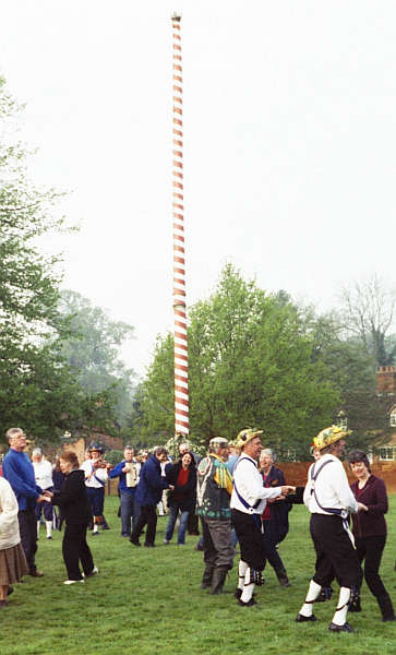 Villagers & Morris-men dancing beside the Maypole, Ickwell, Bedfordshire, UK; Dawn on 1st May 2005. Photo: R. Sheppard